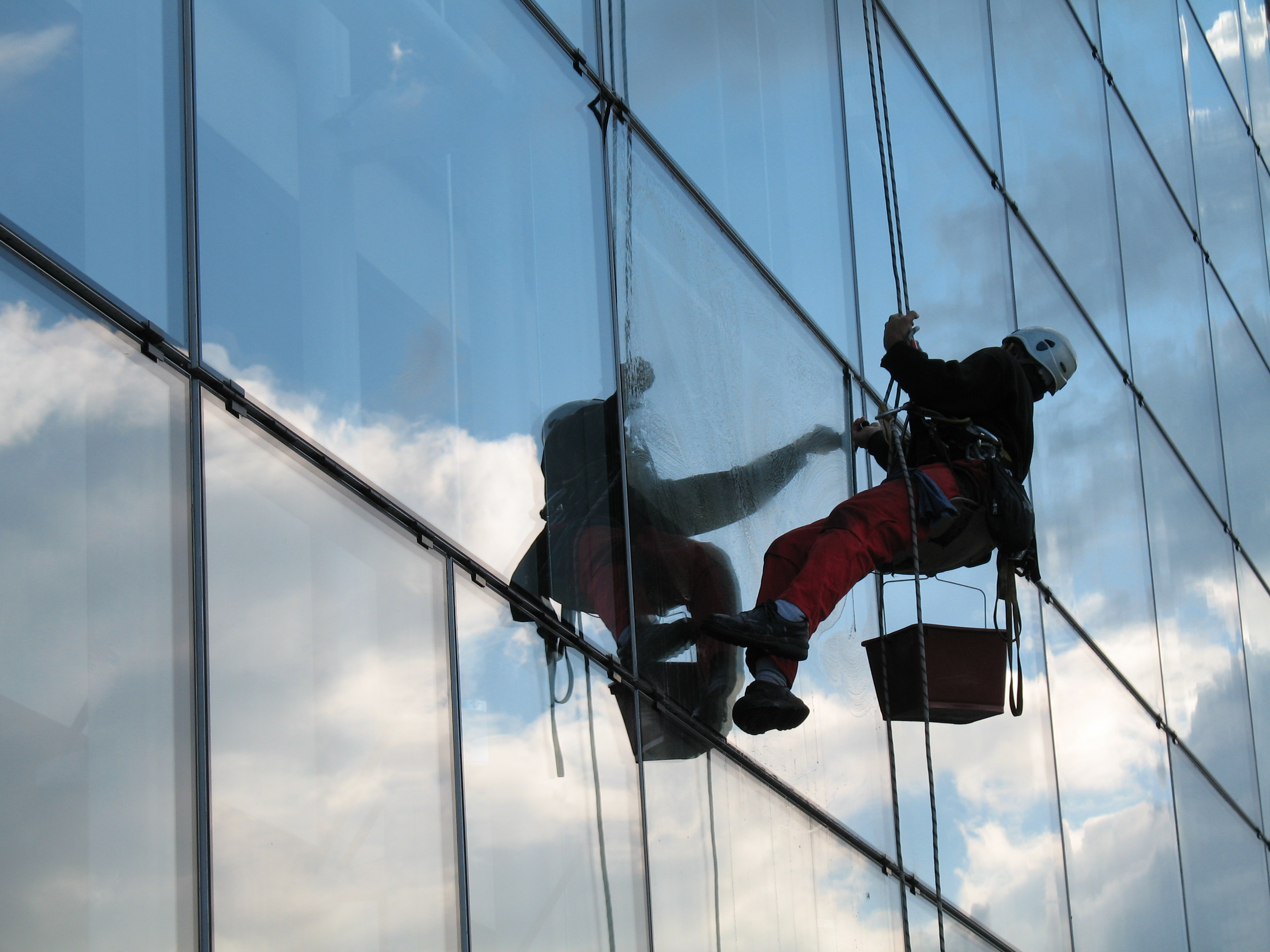 A Window cleaner.